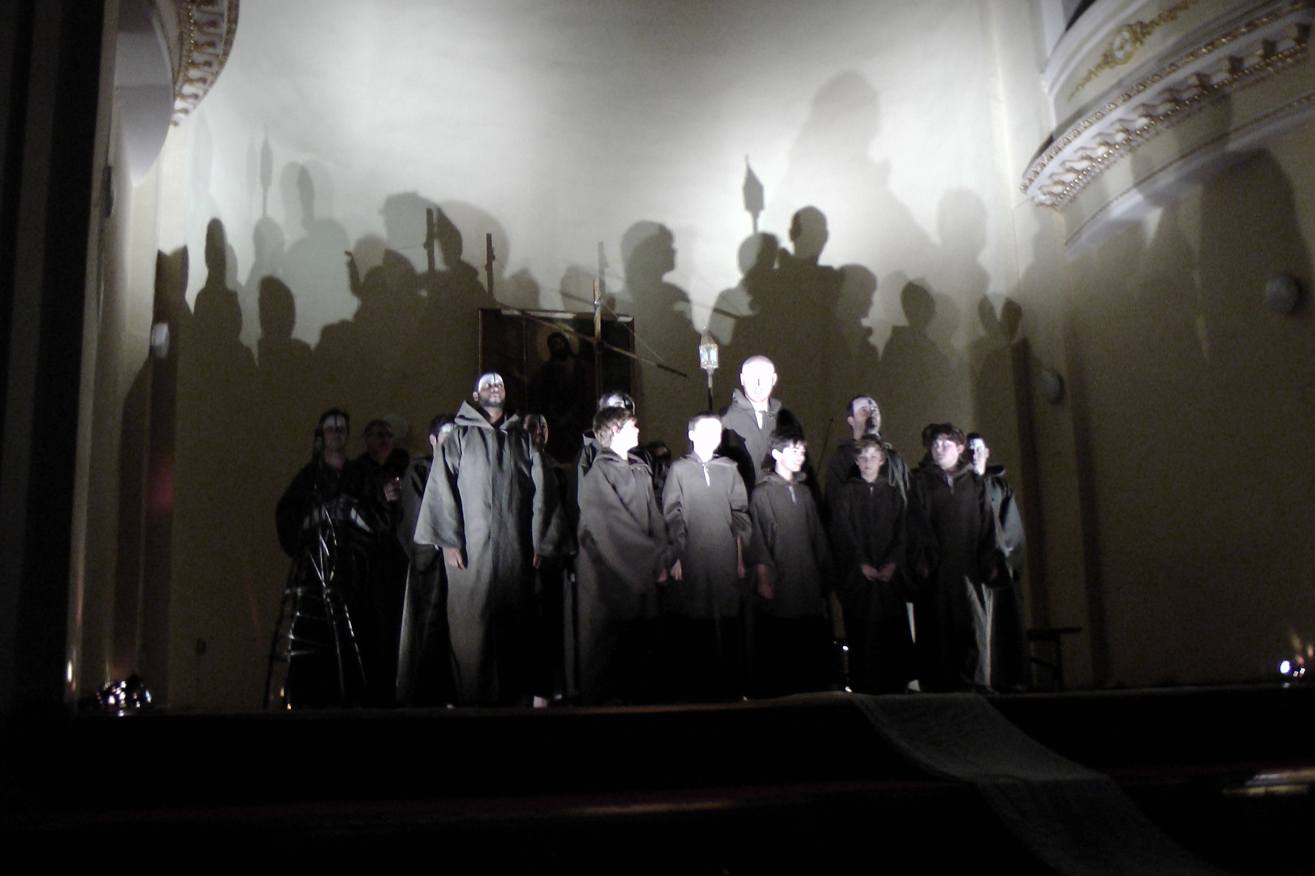 Performance of Curlew River in Saint Petersburg.